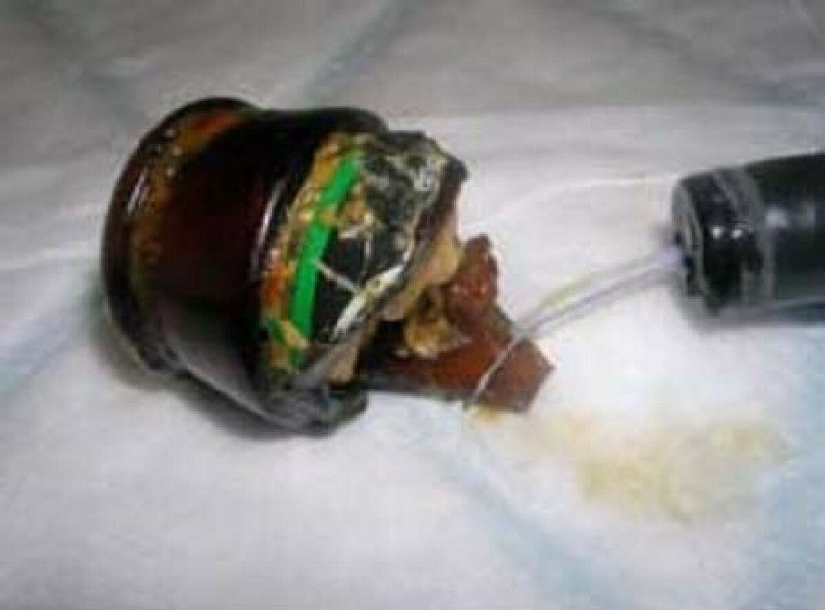 Endoscopic snare with bottle fragment.